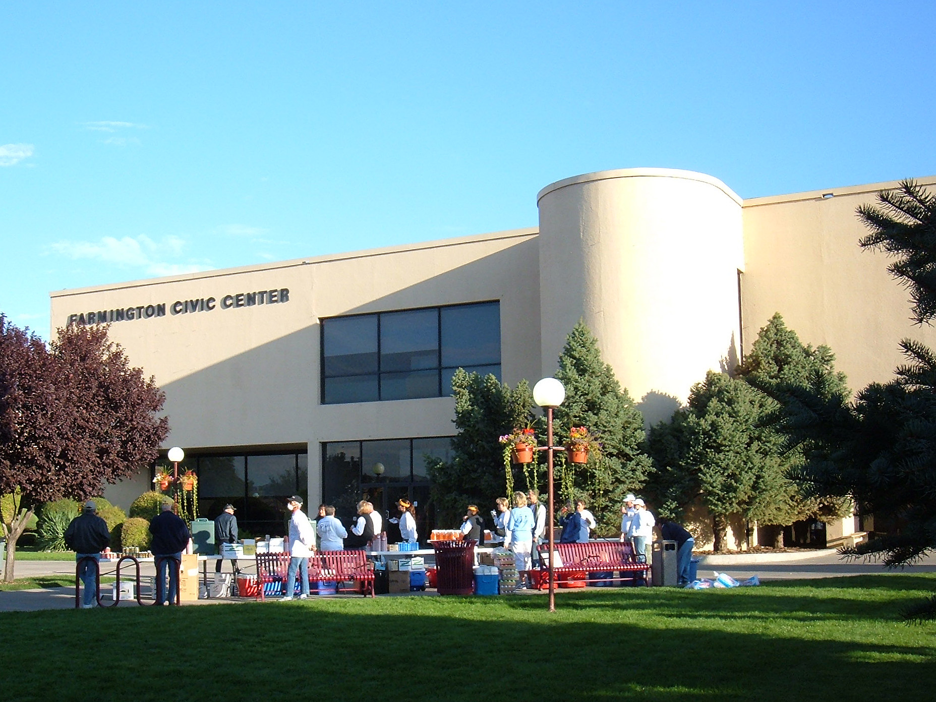 Farmington Civic Center, in Farmington, New Mexico, during the San Juan Medical Foundation's Cancer Walk-a-Thon on September 27, 2008